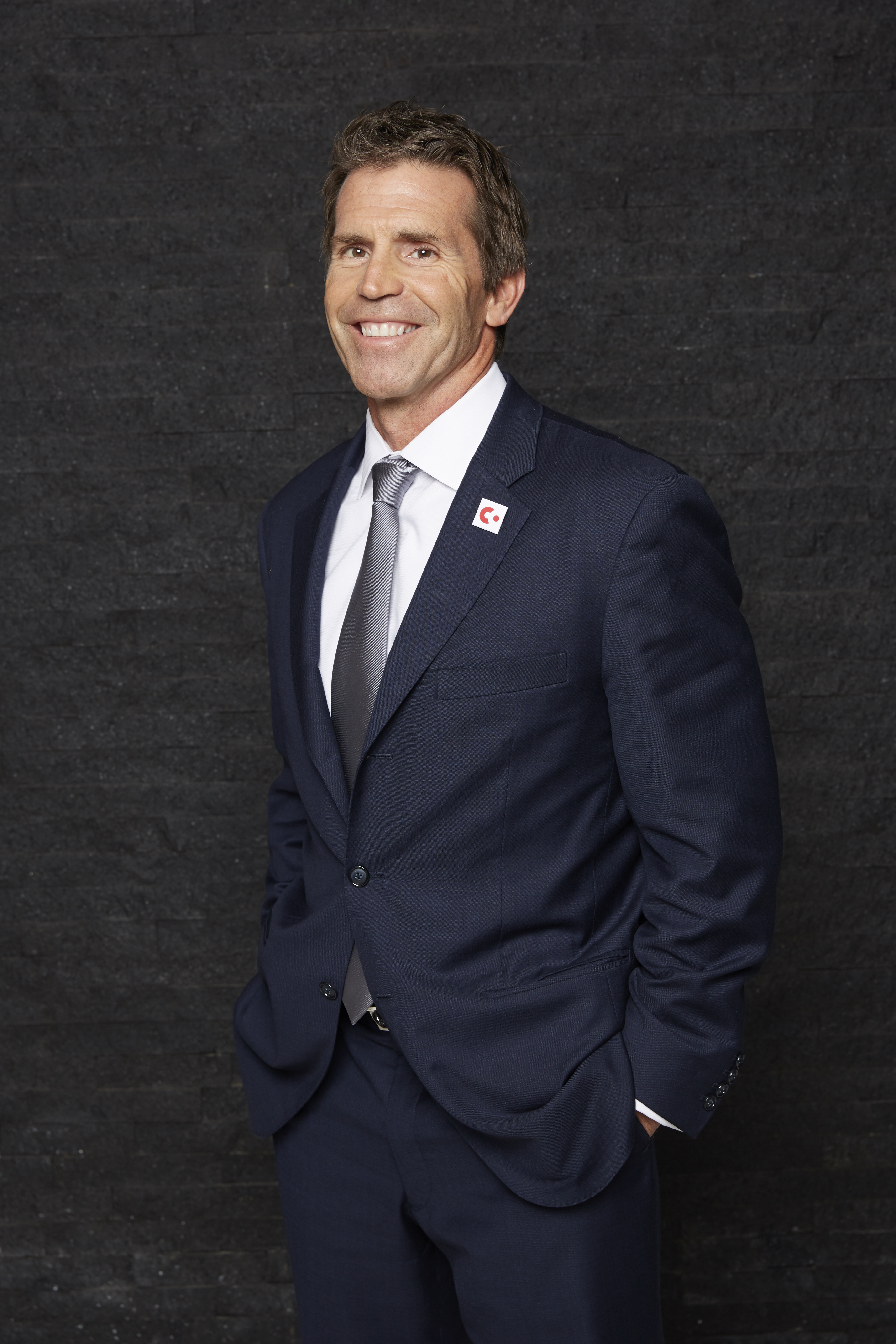 David E. Rutter at R3's CordaCon event in New York City.